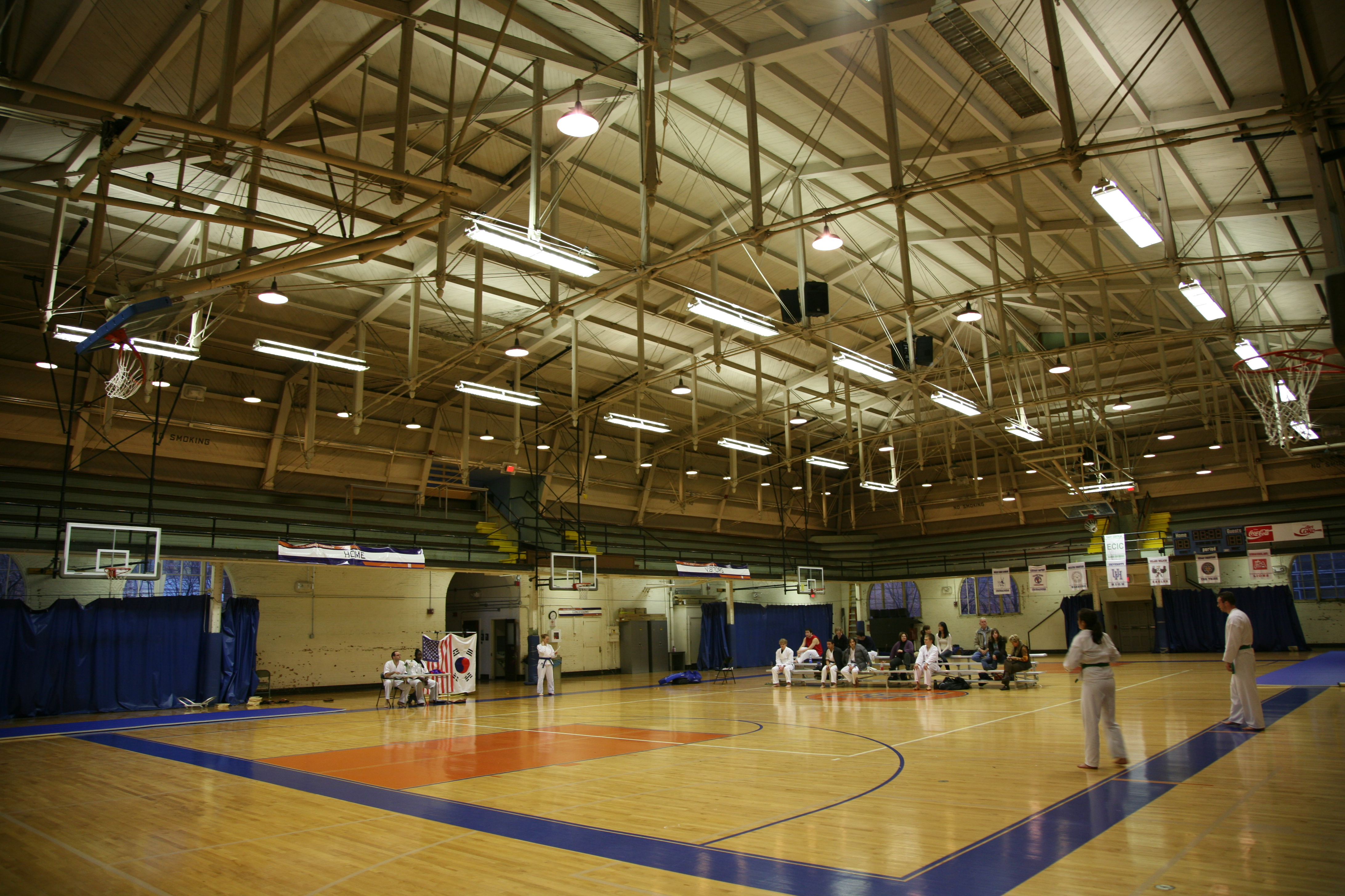 Kenney Gym, University of Illinois at Urbana-Champaign